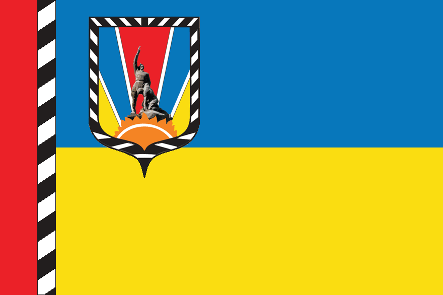 Flag of Markivskiy raion in Luhansk Oblast